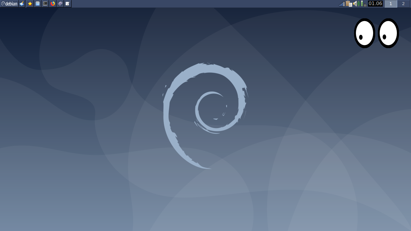 IceWM on Debian Buster, featuring Xeyes and the Futureproto theme